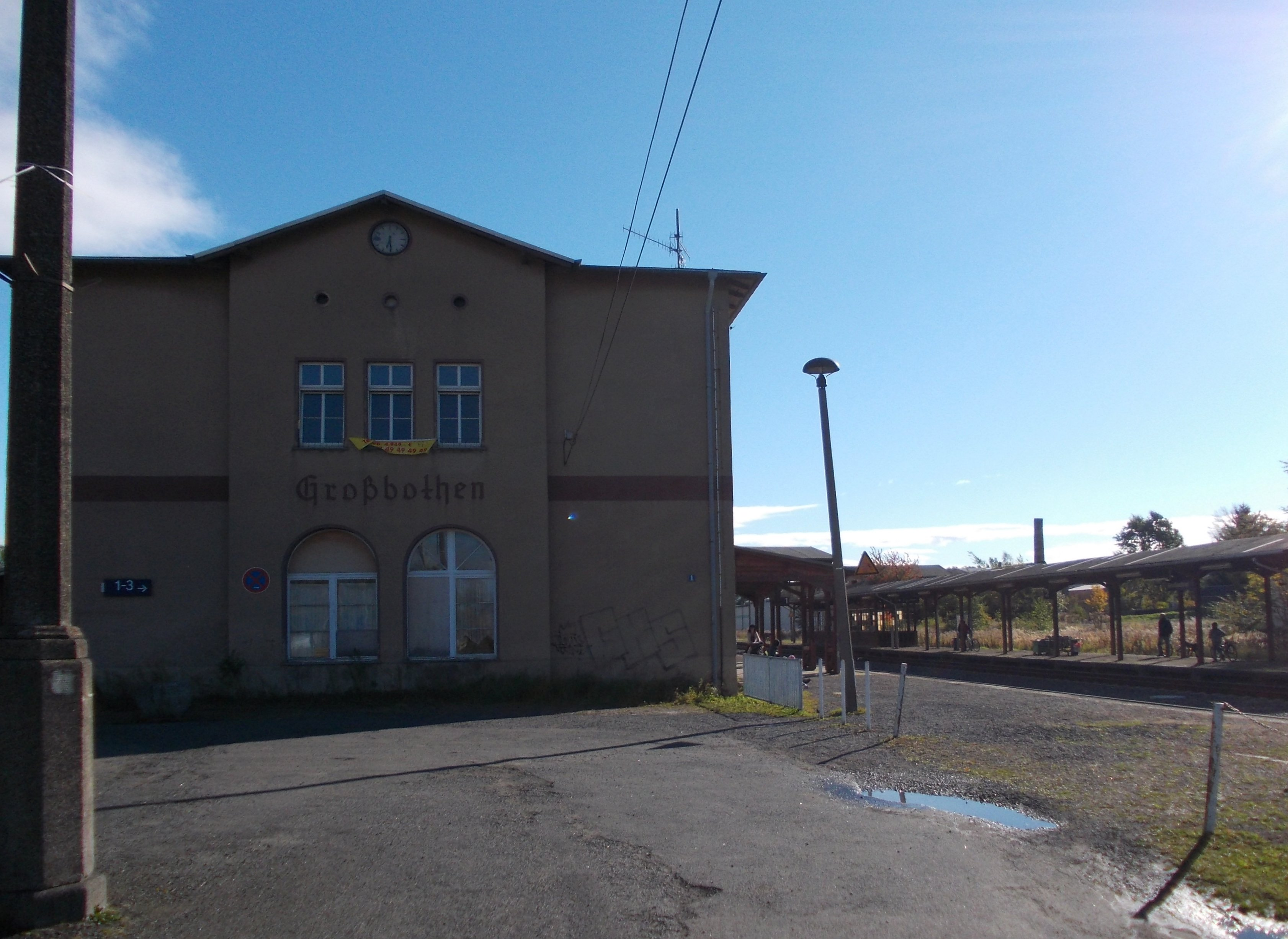 Grossbothen train station (Grimma, Leipzig district, Saxony)